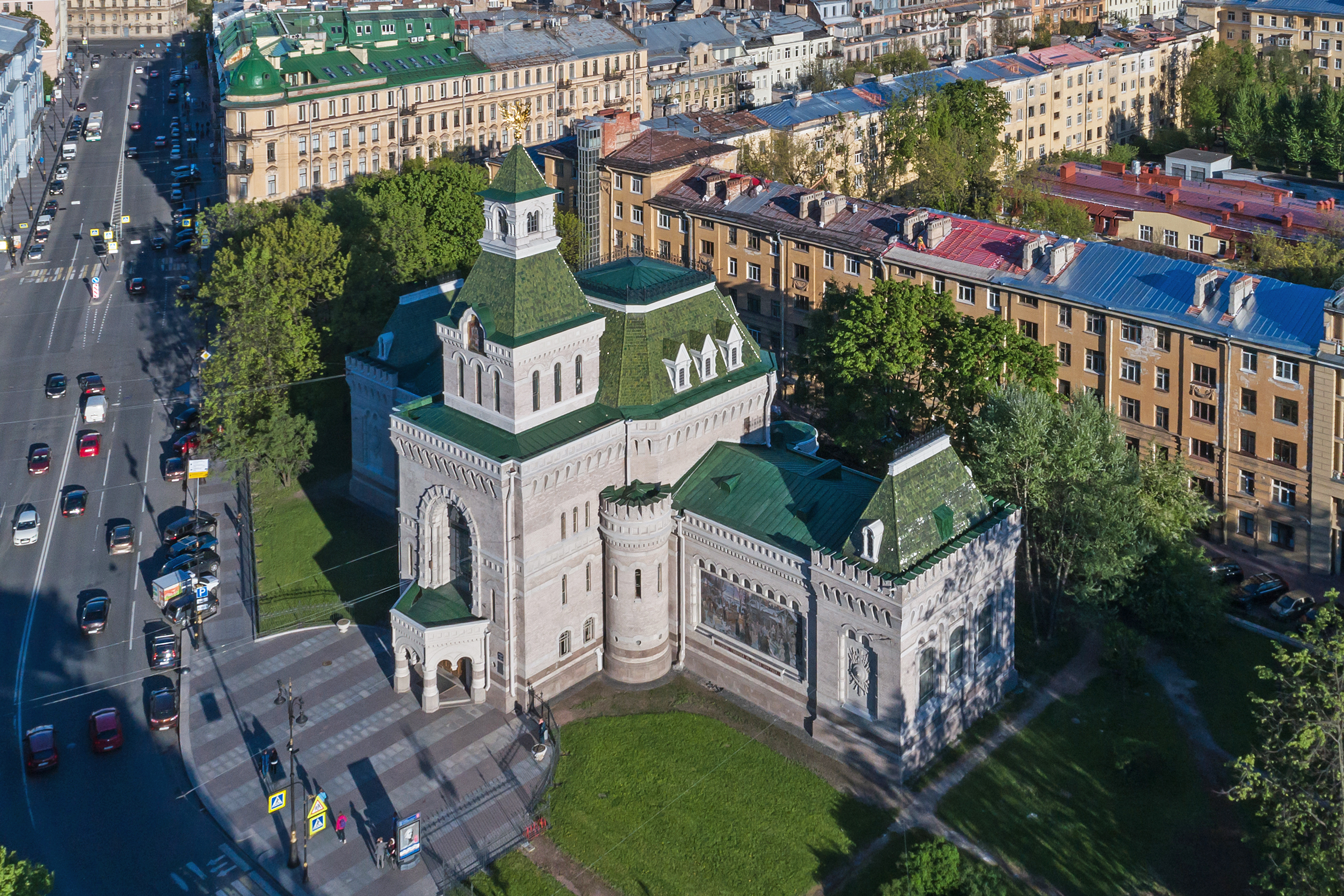 Aerial photo of the A. V. Suvorov Museum in Saint Petersburg (Russia).